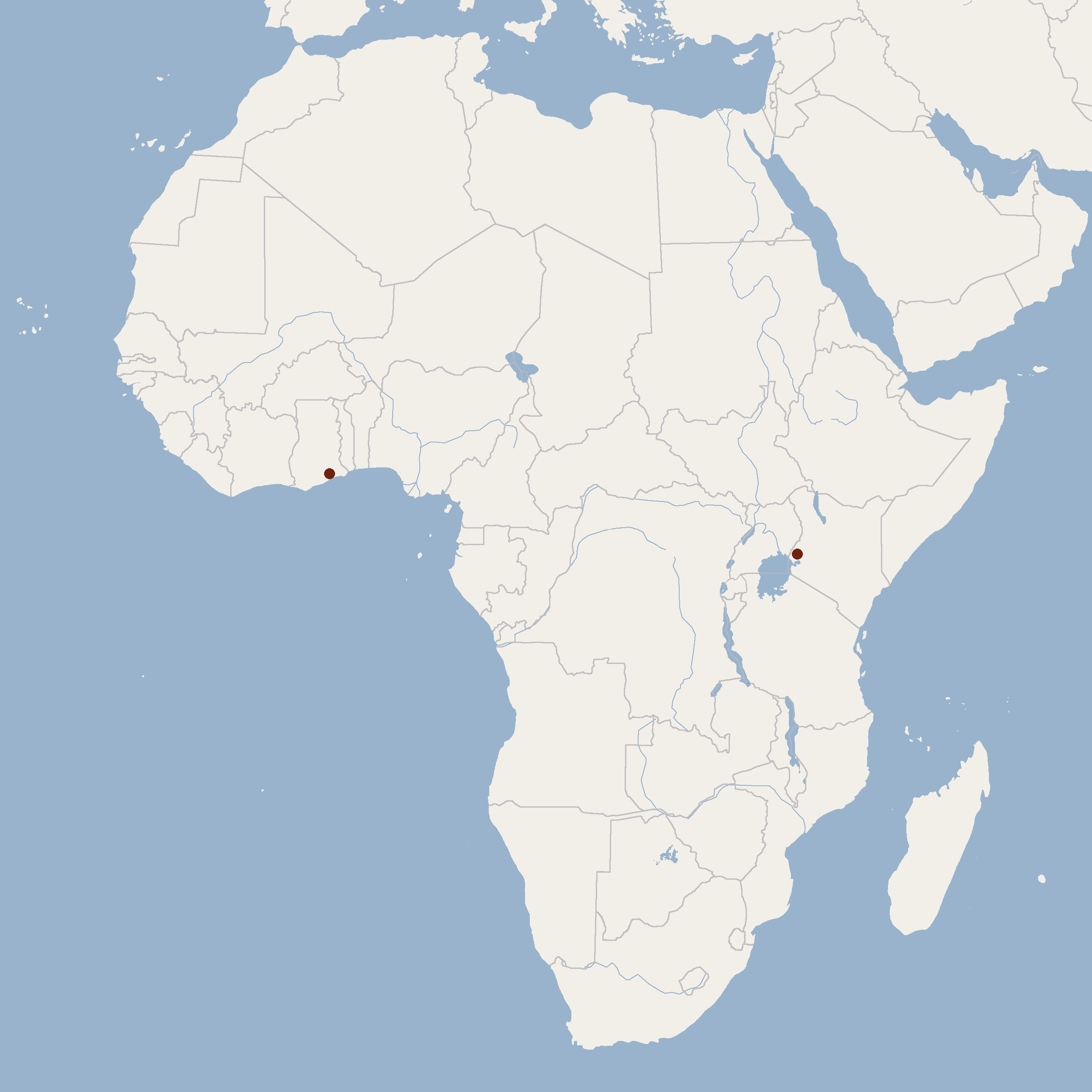 According to Brooks & Bickham, 2014